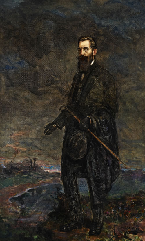 Theodor Herzl painted by Leopold Pilichowski